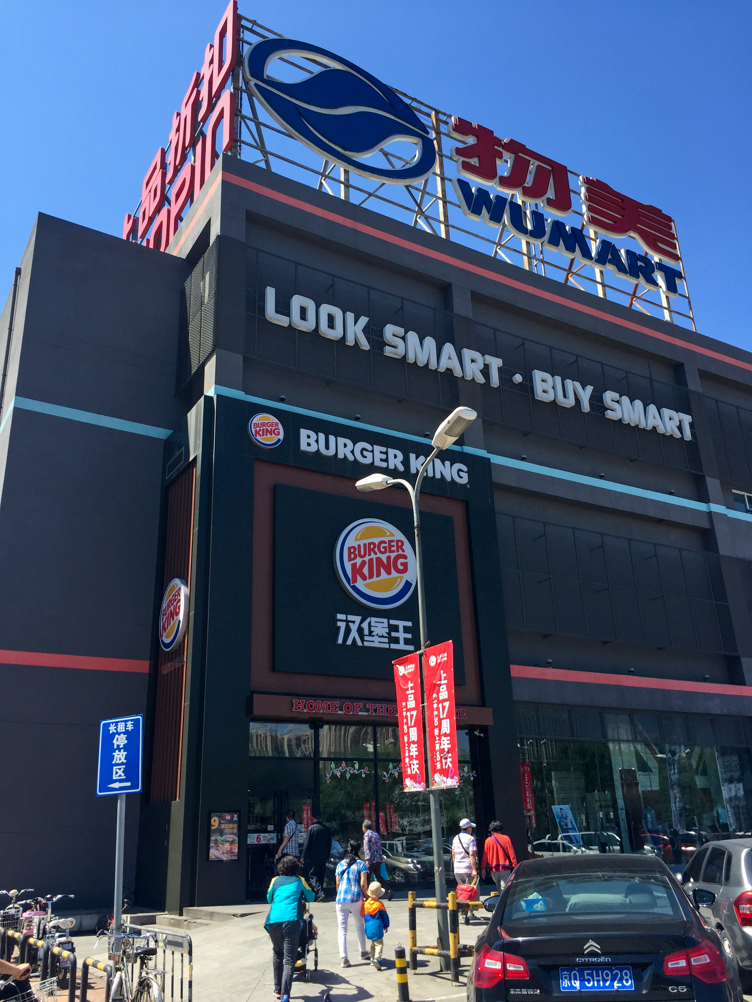 Near the off-ring stop of T8.